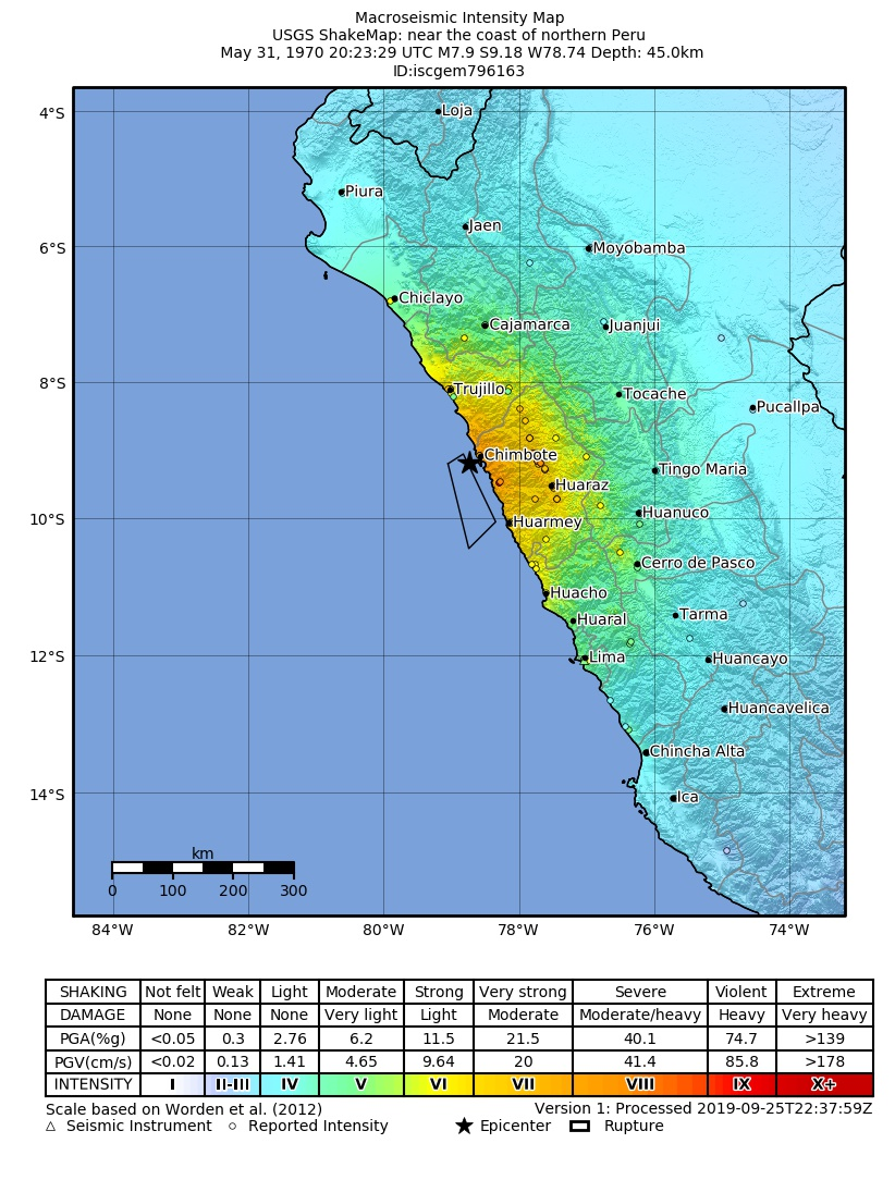 Shakemap of the Ankash earthquake of 31 May 1970 in Peru